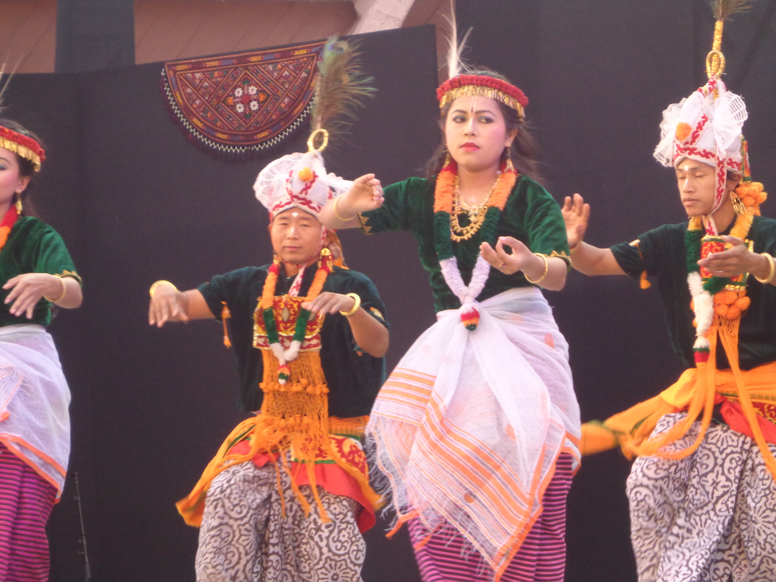 Lai Haroaba Manipur festival dance folk dance of manipur